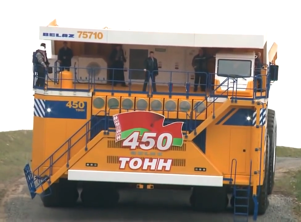 BelAZ 75710 on presentation